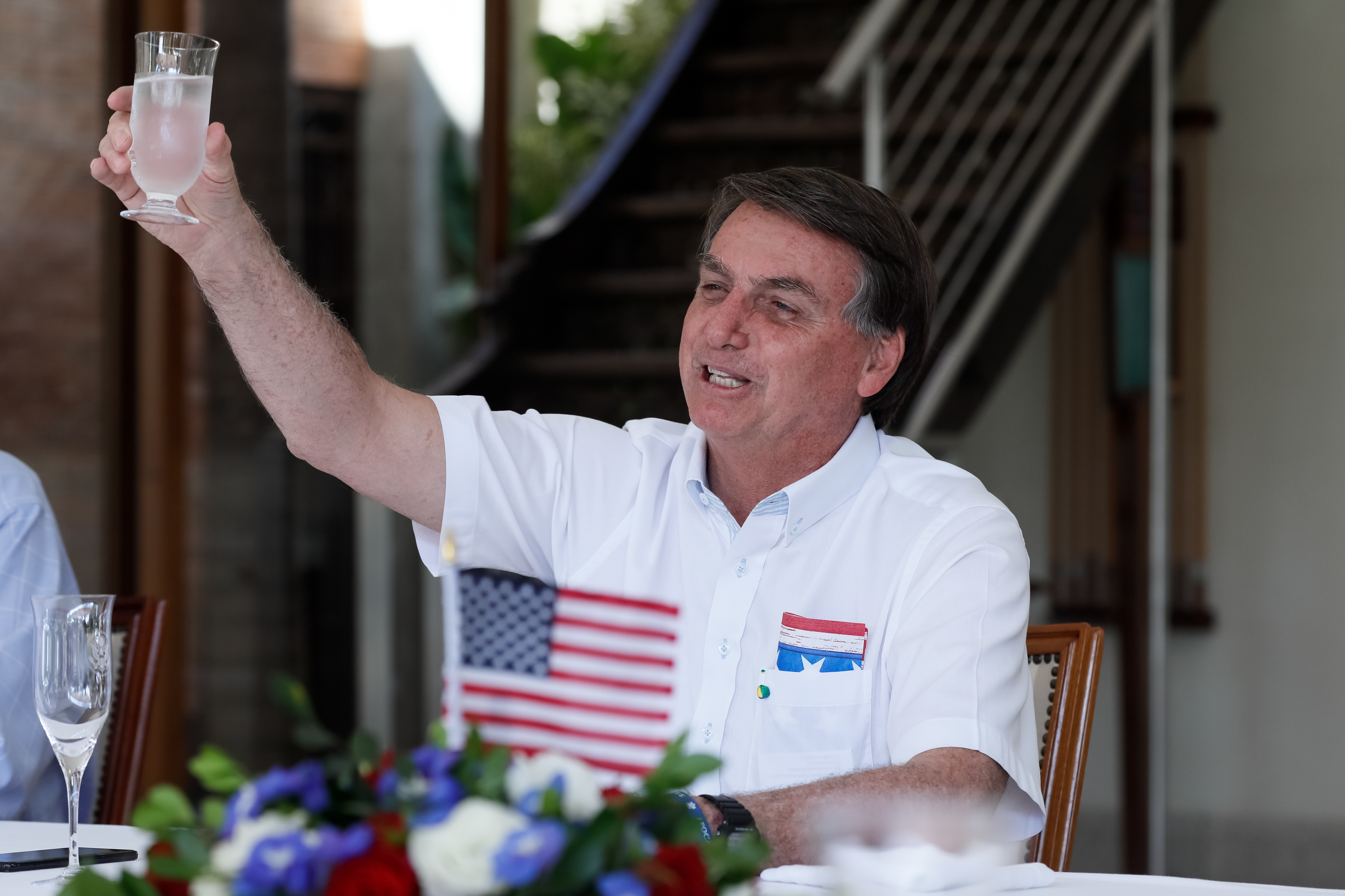 (Brasília - DF, 04/07/2020) Comemoração ao 244º Aniversário da Independência dos Estados Unidos da América. Foto: Isac Nóbrega/PR